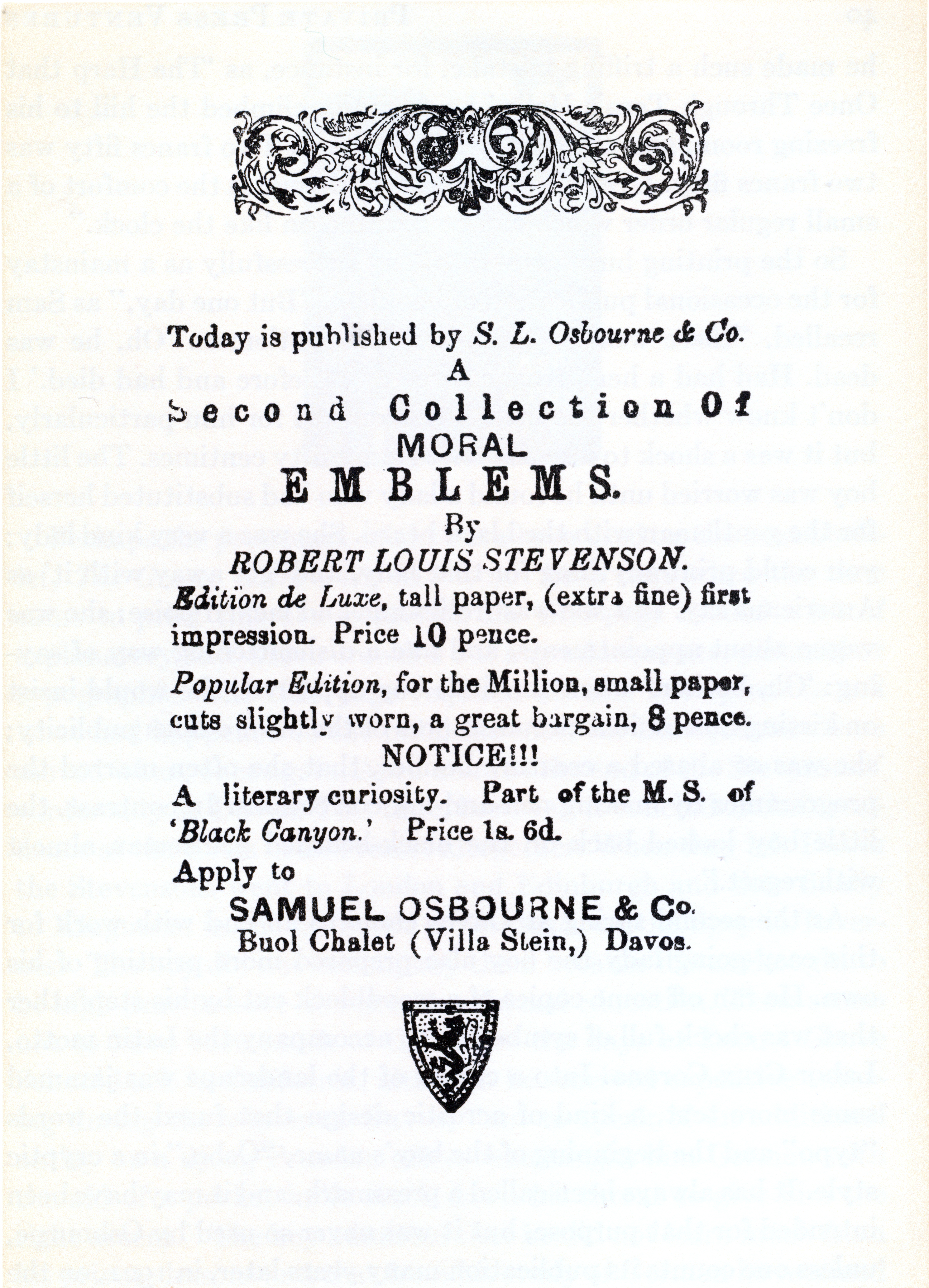 Works of Robert Louis Stevenson, Edinburgh, Longmans Green and Co, vol. 28, 1898, p. 107.